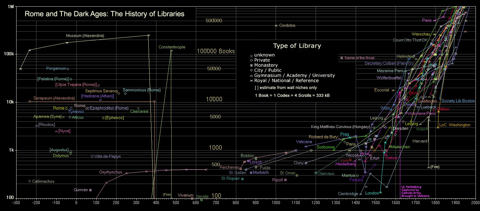 "Rome and The Dark Ages": The History of Libraries